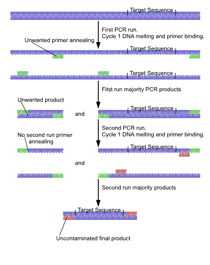 By Richard Wheeler (Zephyris) 2005